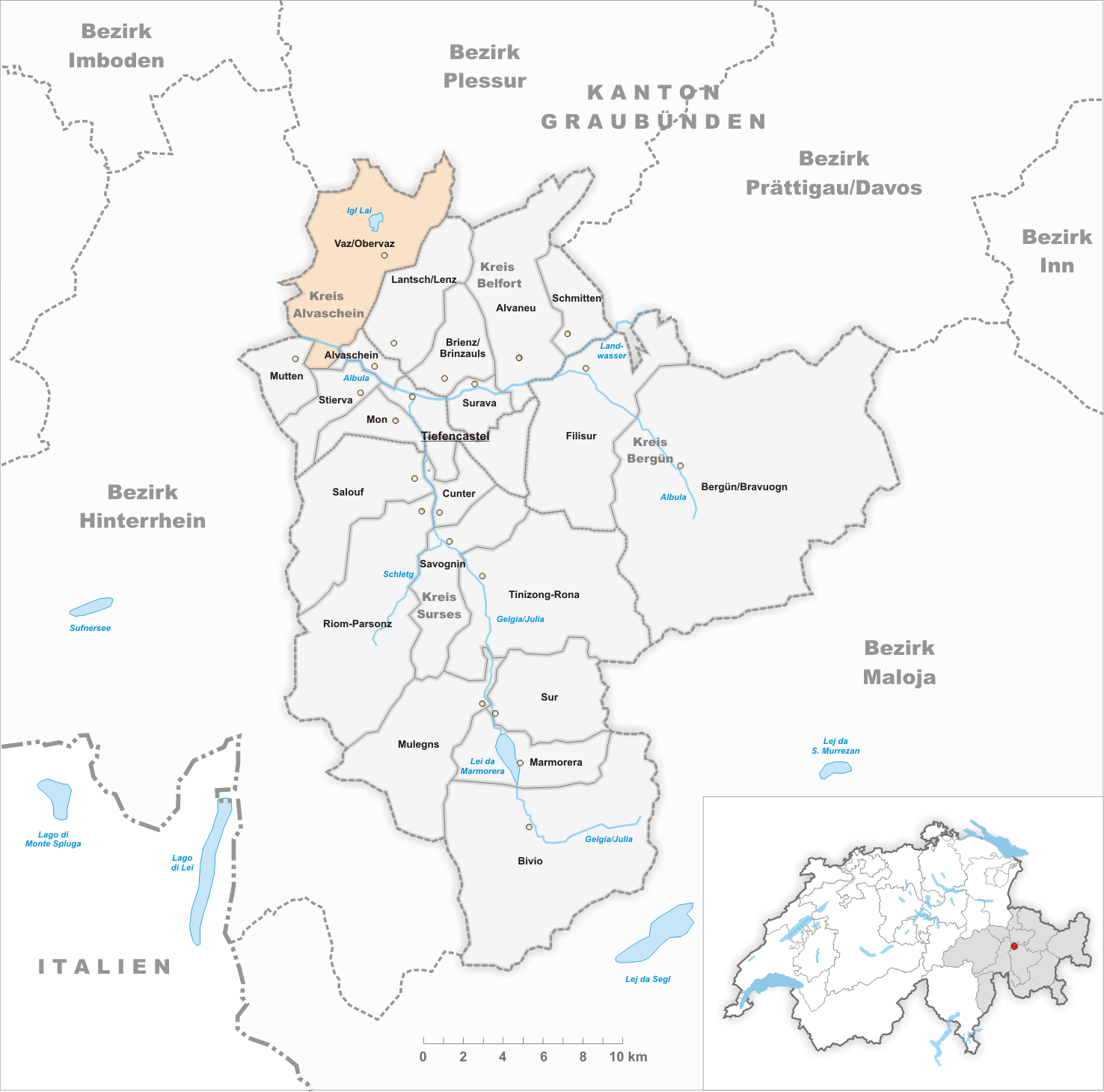 Municipality Vaz/Obervaz